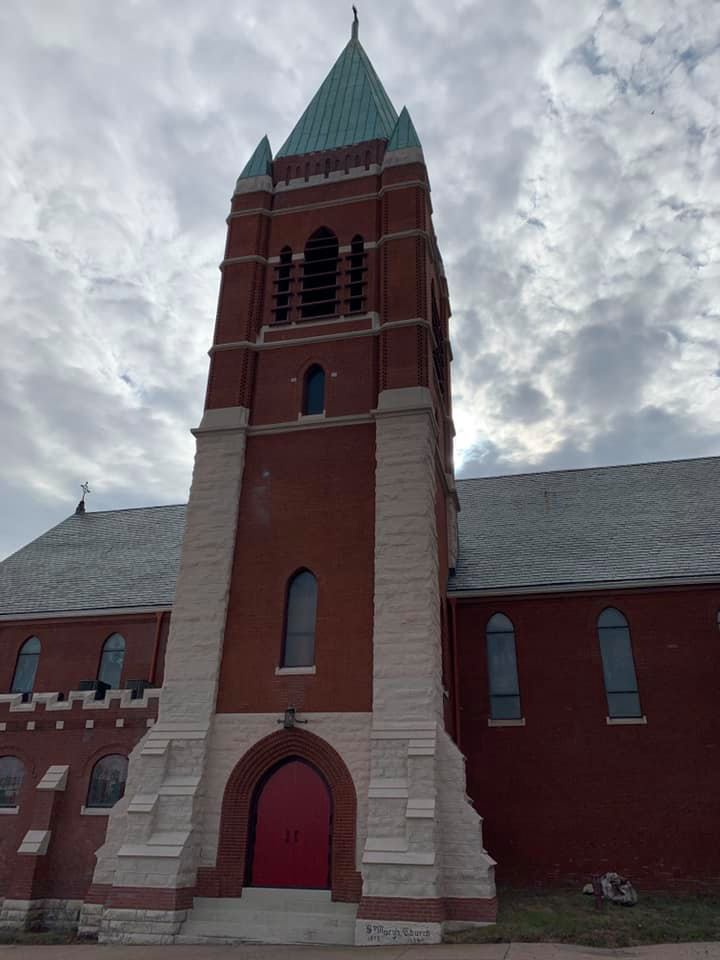 This is a photo of St. Mary's Episcopal Church in Kansas City.